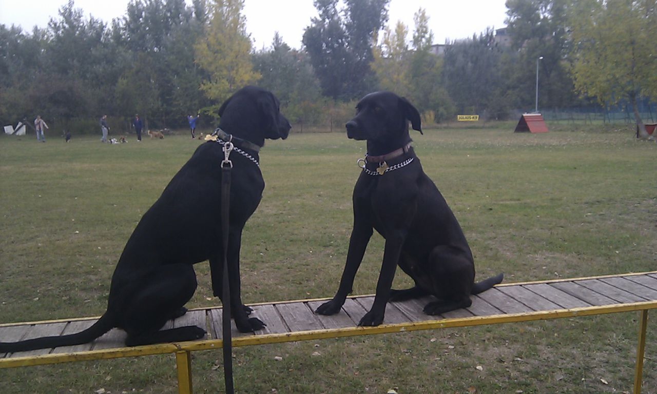 Two mixed bred dog display sit position